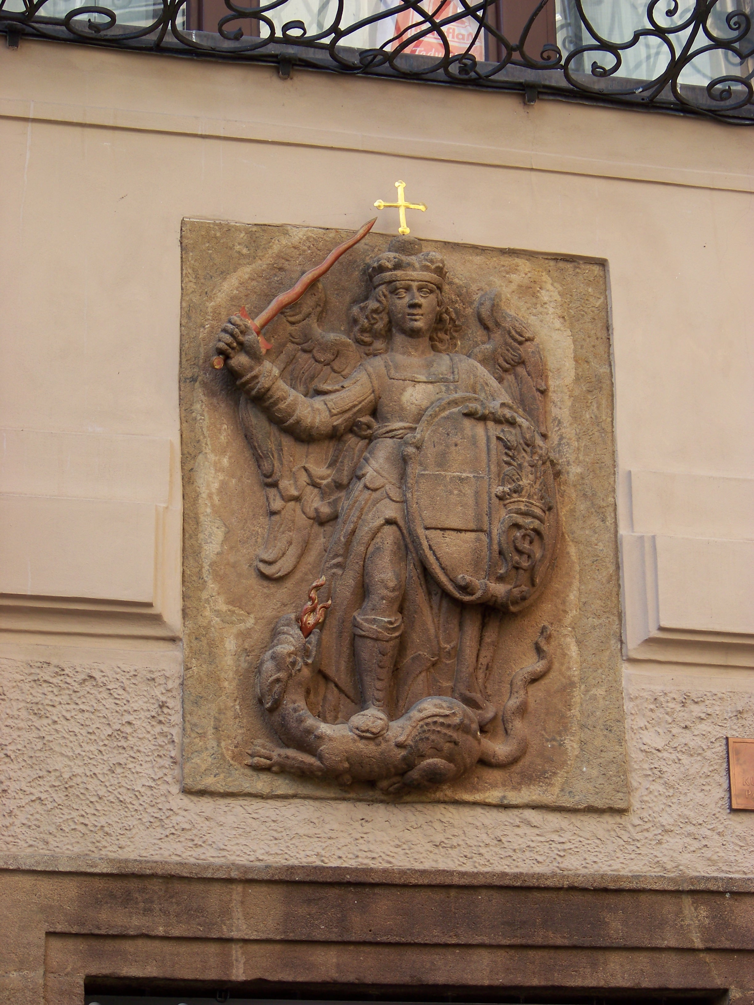 Prague-Old Town, Czech Republic. Melantrichova 970/17, former servite monastery, a relief of Saint Michael the Archangel.